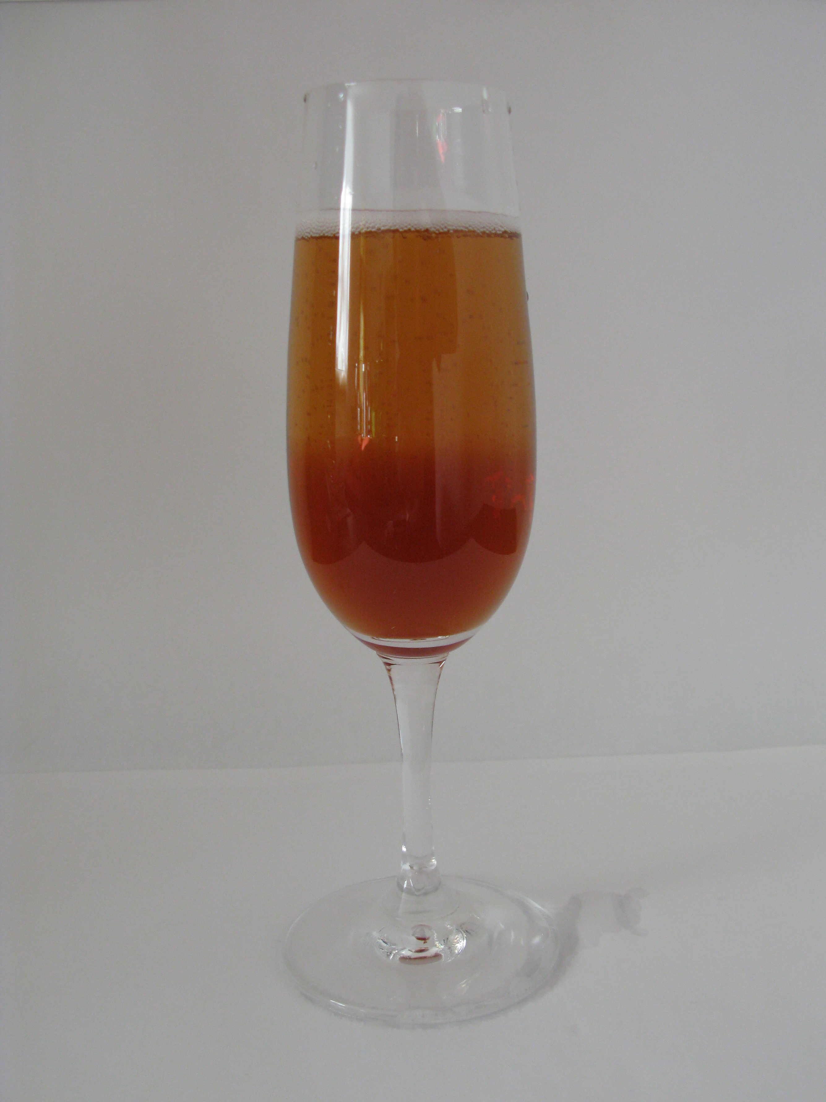 Photo of a Kir Royal